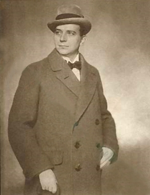 German actor Paul Hansen, photographed by Nicola Perscheid